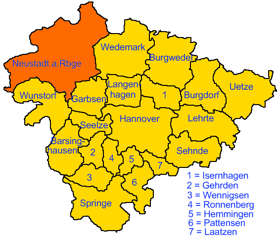 Location of Neustadt in Region Hannover